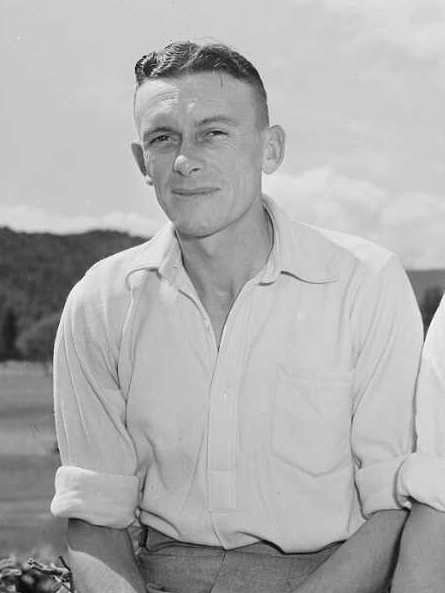 Members of the Australian Cricket Team, Driver and Ridings, photographed in 1950 by an Evening Post photographer.